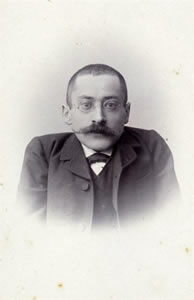 J.M. Fraenkel